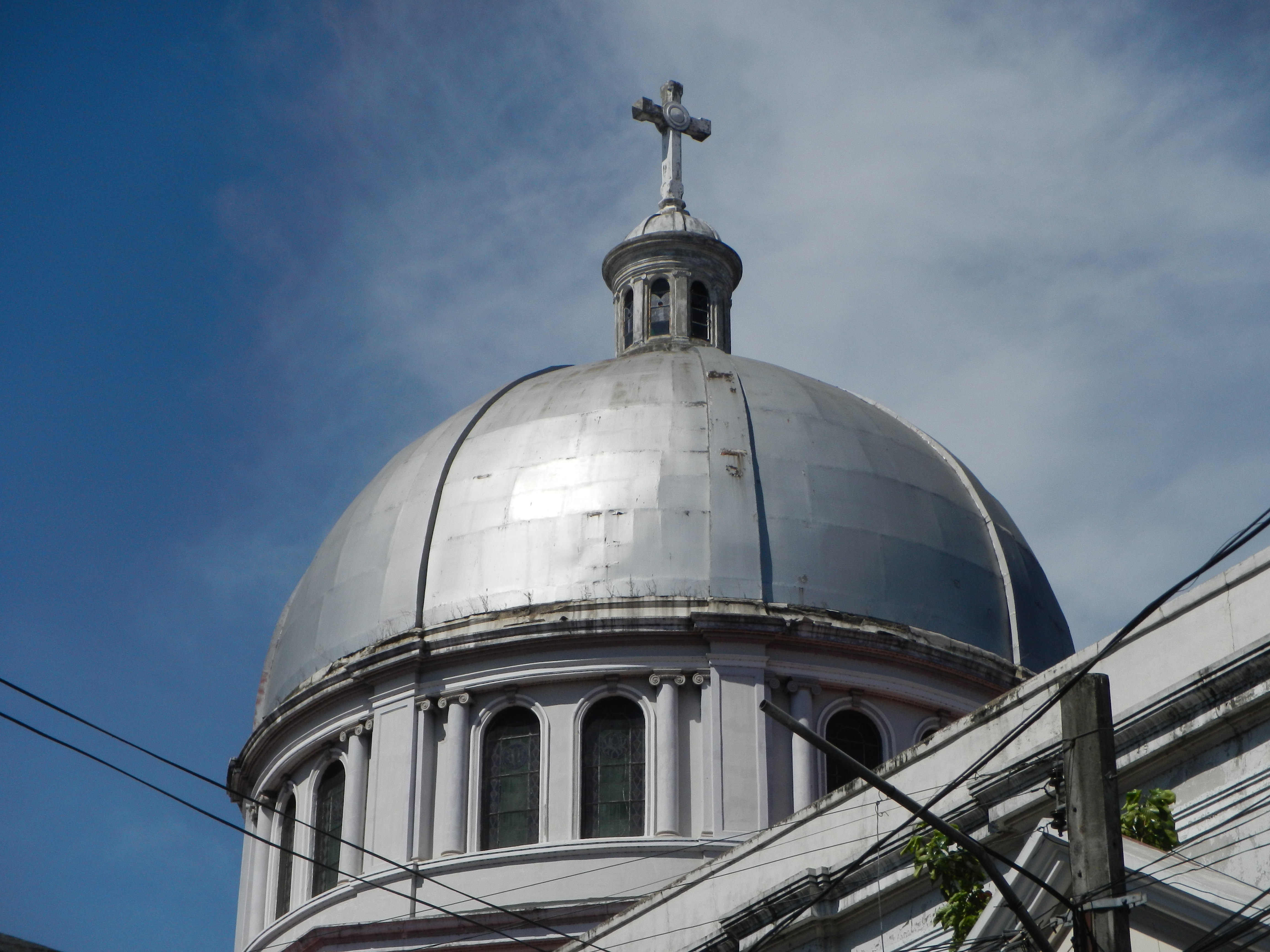 Upload Wizard photos of - San Fernando, Pampanga[1] --- San Fernando Metropolitan Cathedral in Pampanga beside Pampanga Hotel, beside the City Hall.